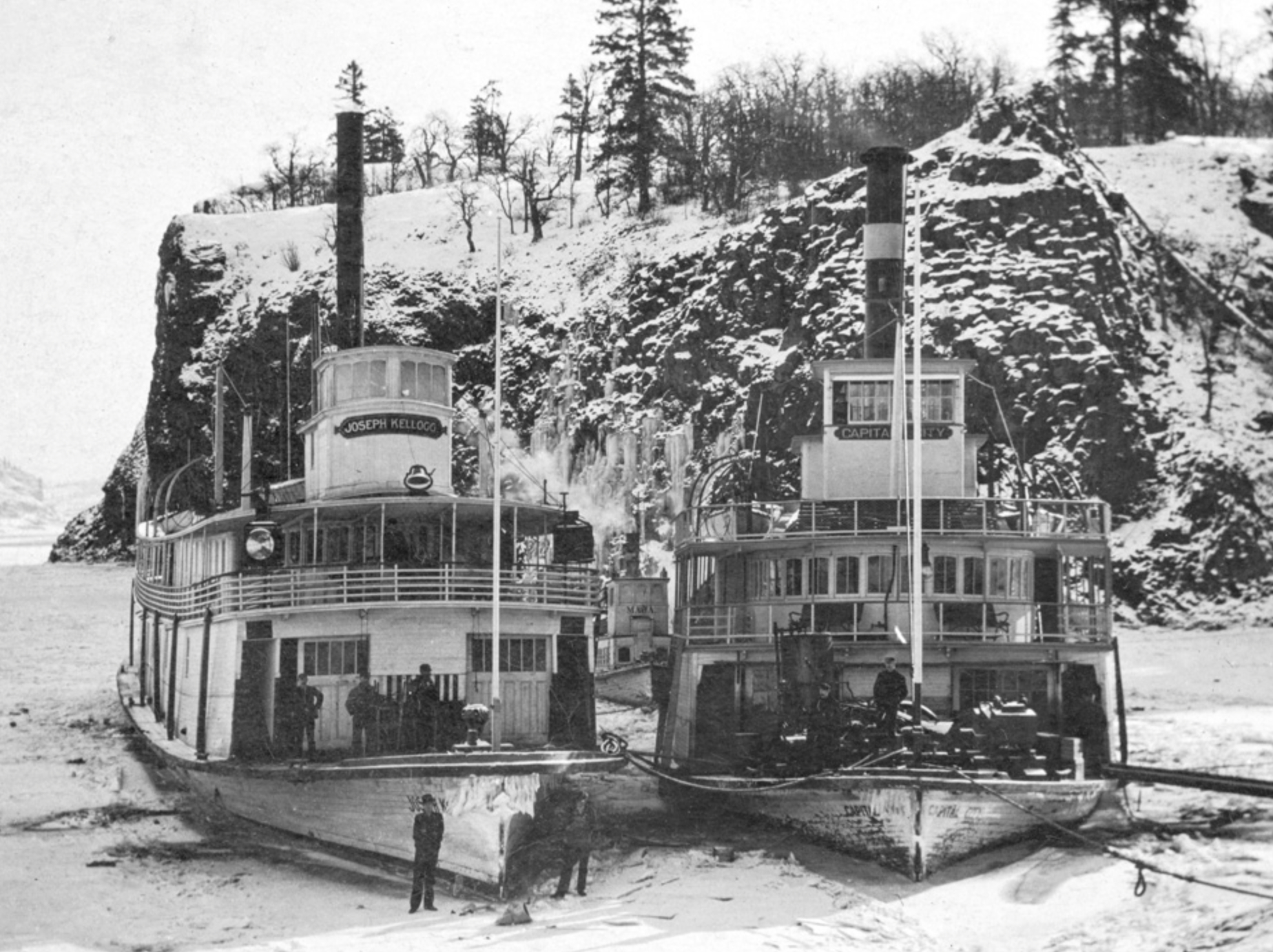 Steamers Joseph Kellogg on left, Capital City on right, with small steam tug Maja in between, frozen in the ice on the Columbia river near Hood River, Oregon (view from bow).